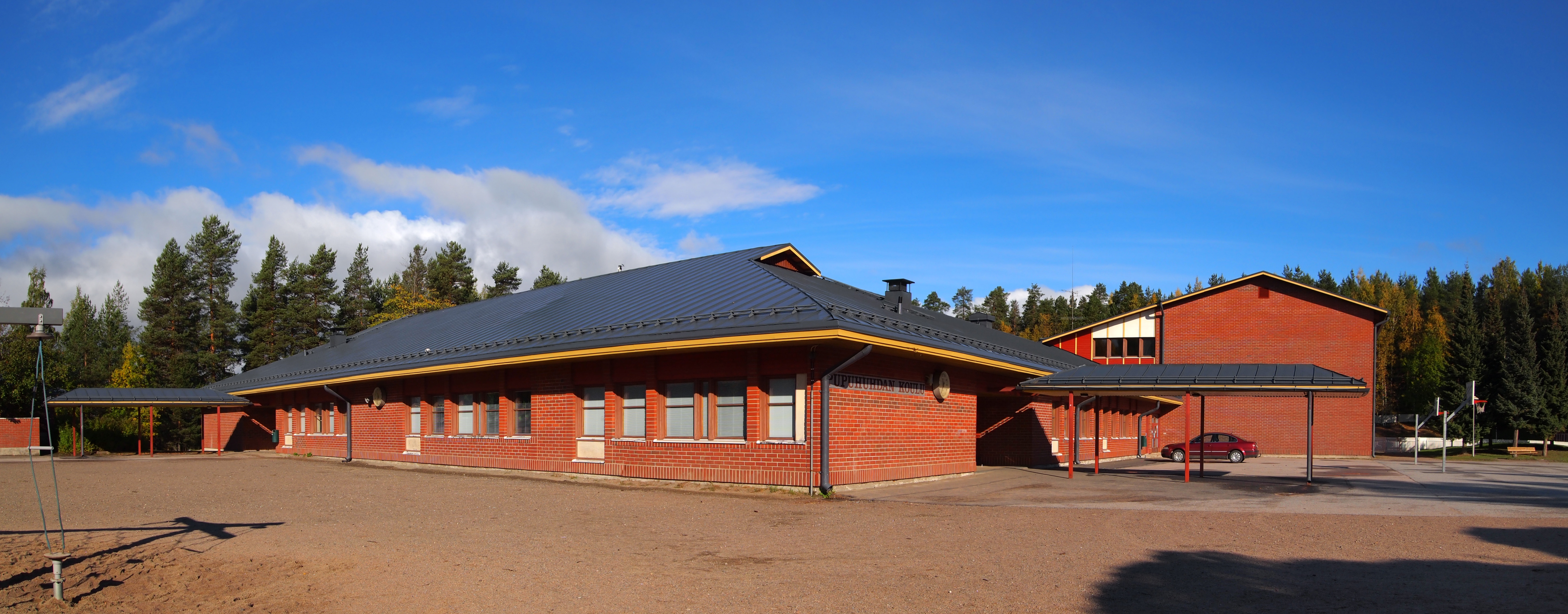 Pupuhuhta school in Jyväskylä. This photograph was taken with an Olympus E-PL1